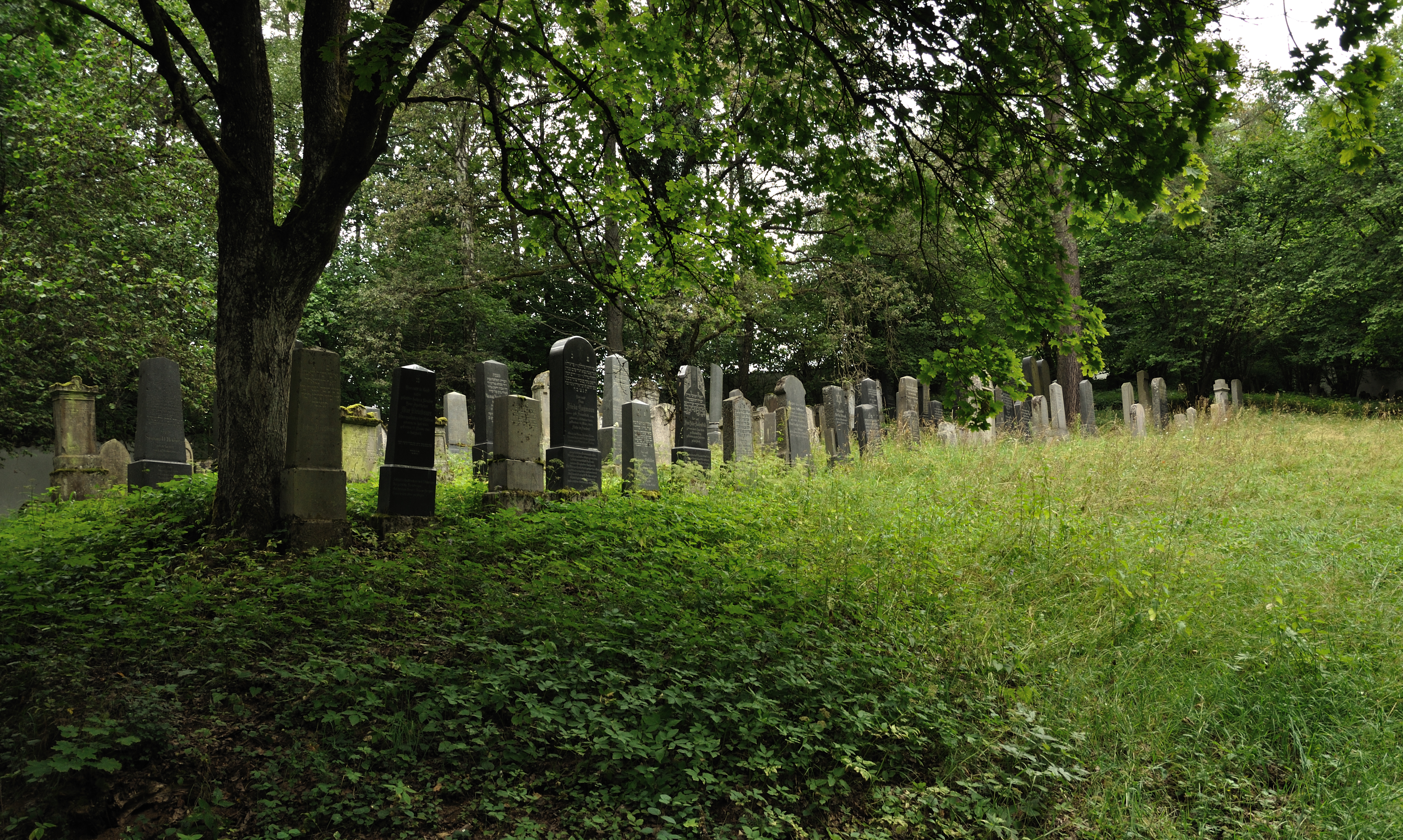 Jewish cemetery Sulzbach Rosenberg, Bavaria, Germany.